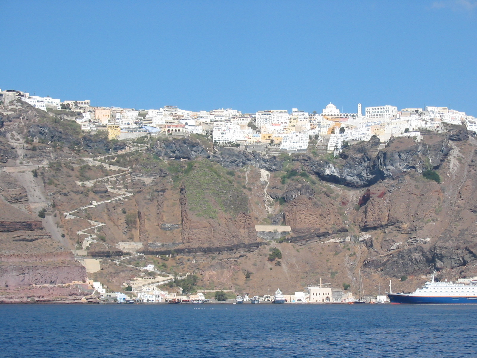 Coast of Fira, on the island of Thera (Santorini, Greece).